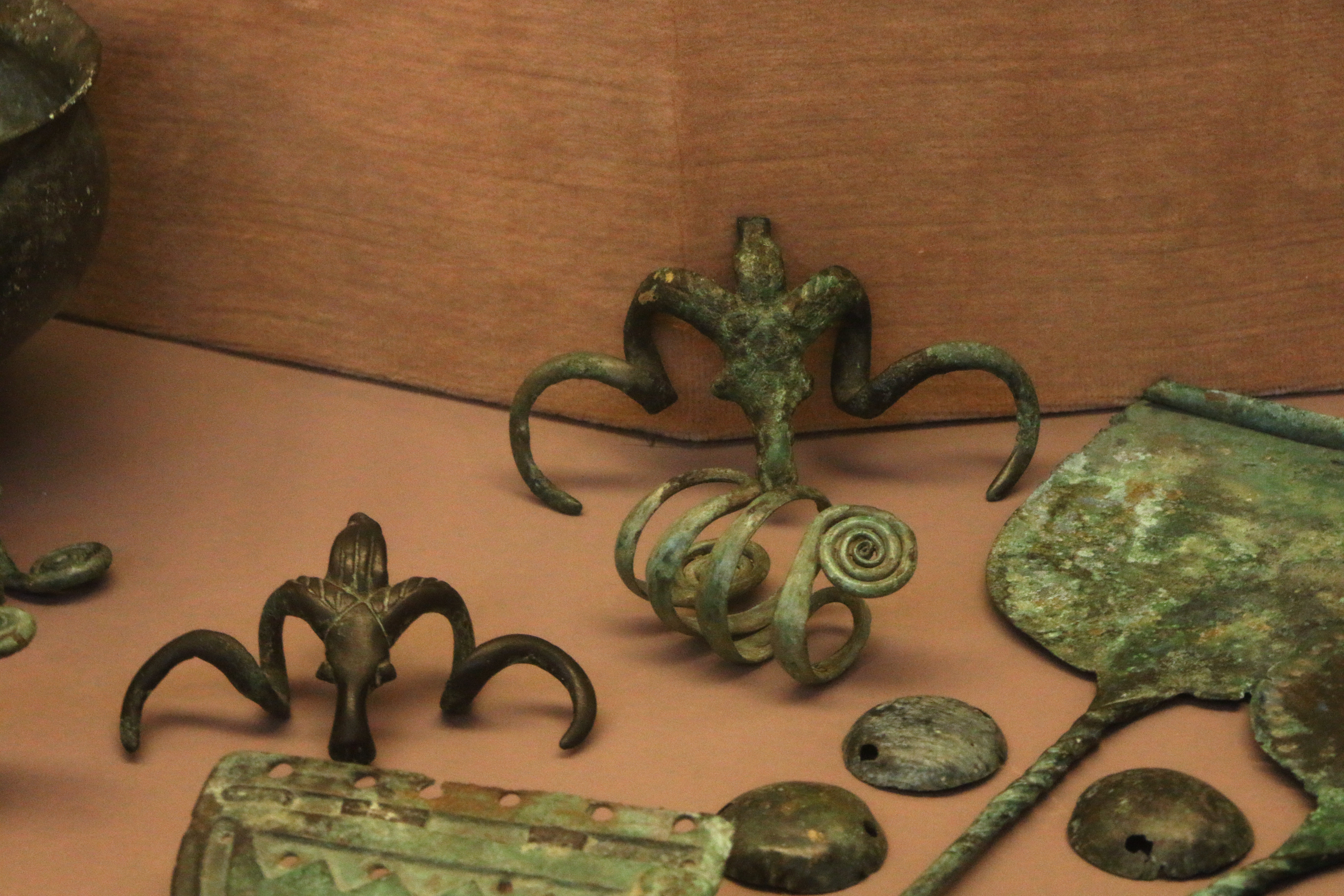 From the National Archaeological Museum of Saint-Germain-en-Laye near Paris France - Mouflon head-shaped pendant - Koban graves - Koban culture